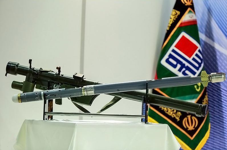 Iranian Shoulder-launched weapon systems Misagh-3